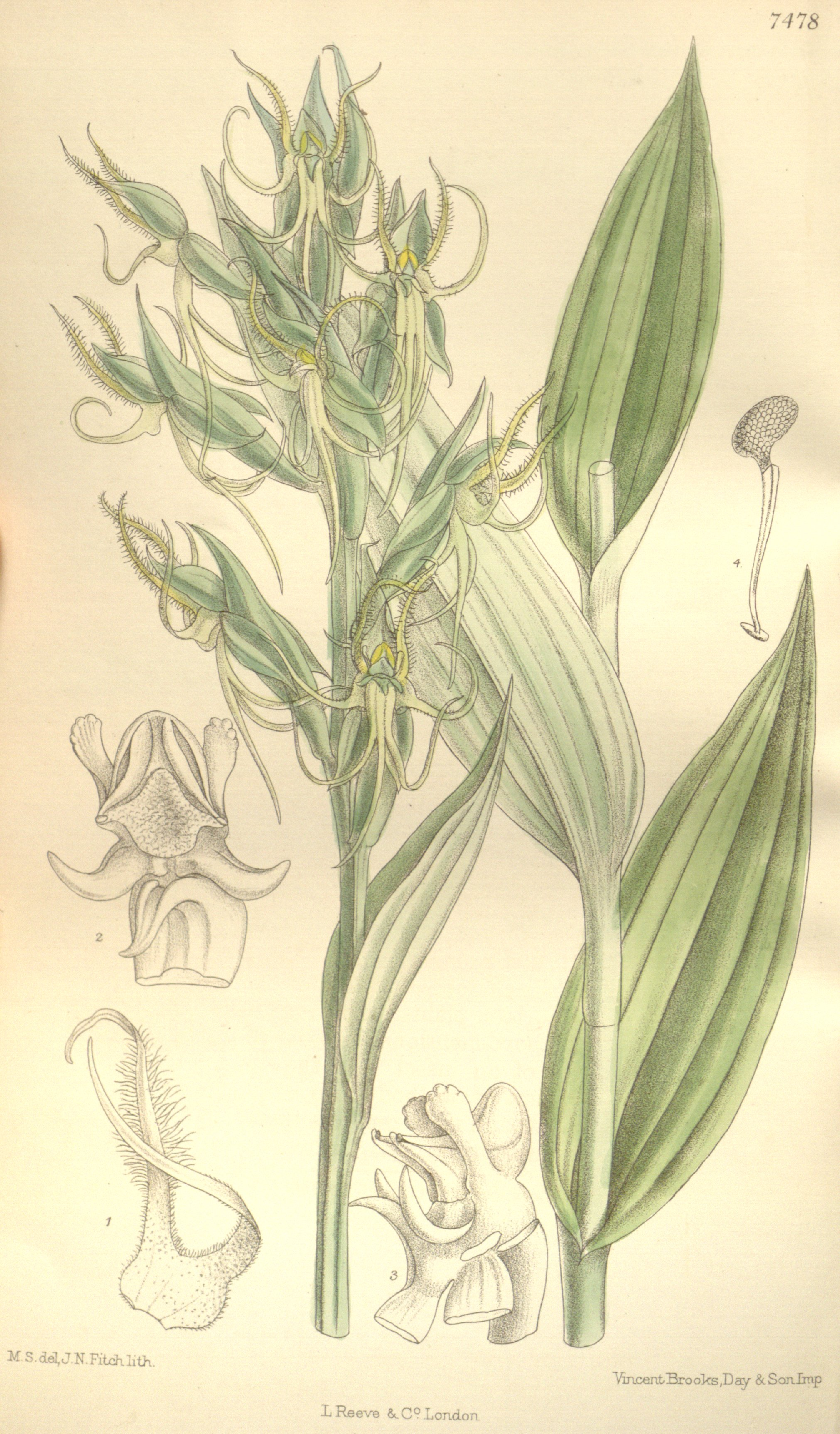 Illustration of Habenaria elwesii